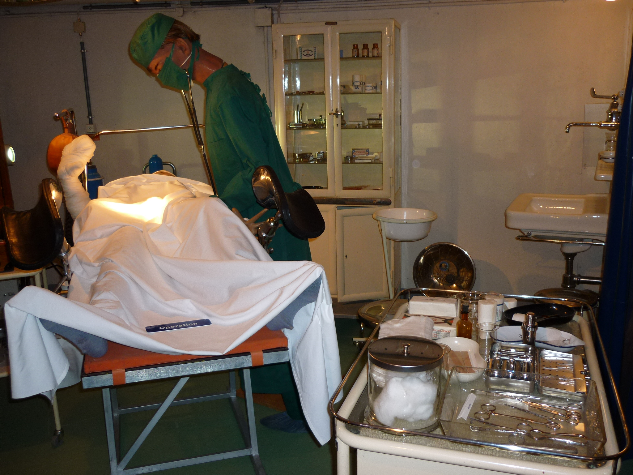 Operationssaal, Zivilschutzmuseum, Zürich, Schweiz